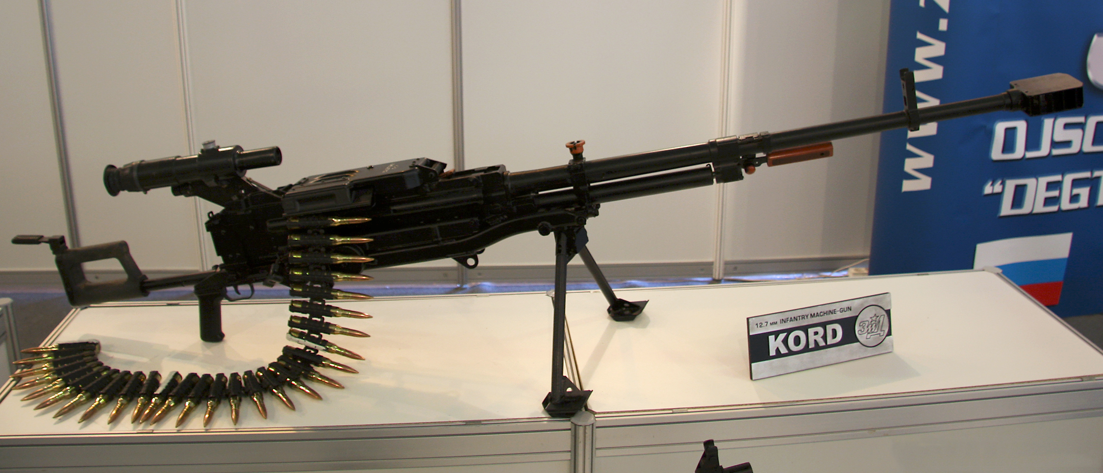 12.7-mm machine-gun Kord - Engineering technologies-2010